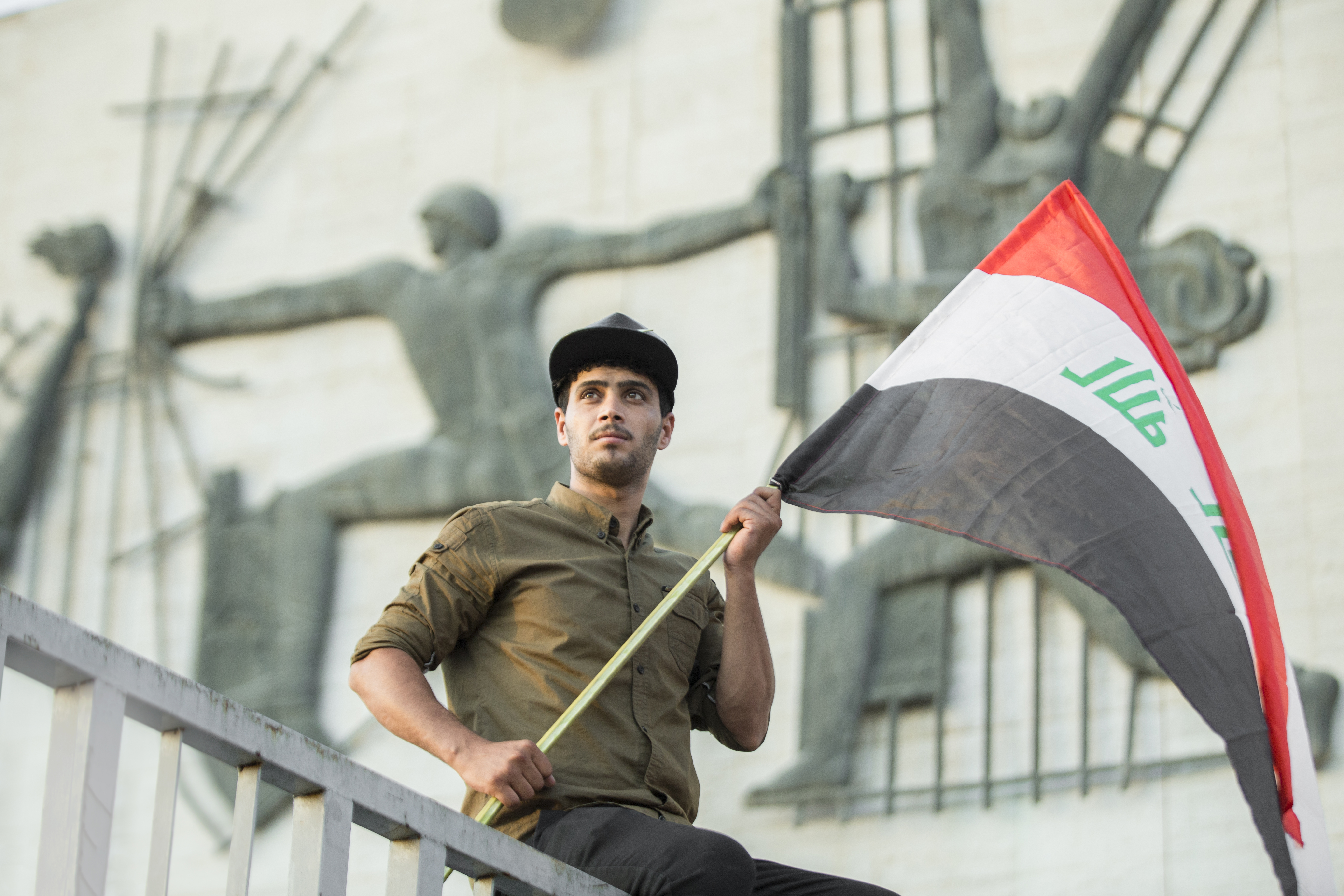 Liberation Square, Baghdad. Young Iraqi man holds a flag of Iraq.